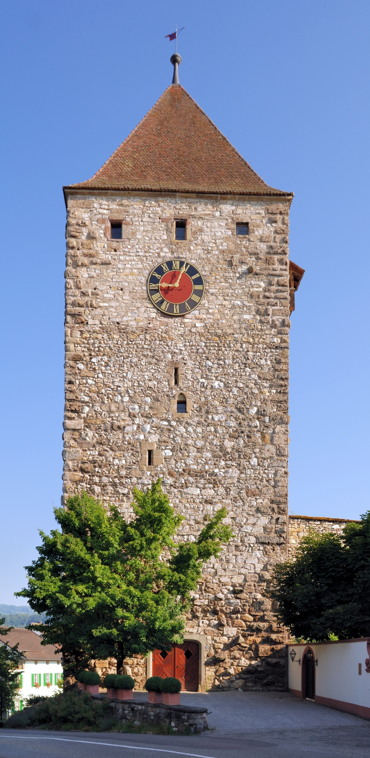 Kaiserstuhl, Switzerland: Upper tower